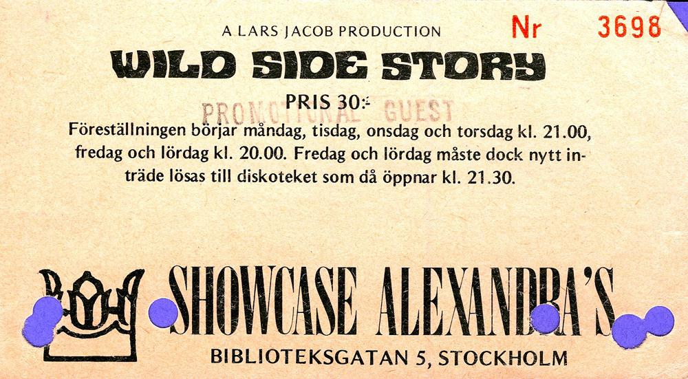 Ticket to Wild Side Story at Alexandra's, as released by image creator Lars Jacob ProdPlace: Alexandra's, Biblioteksgatan 5, Stockholm, Sweden